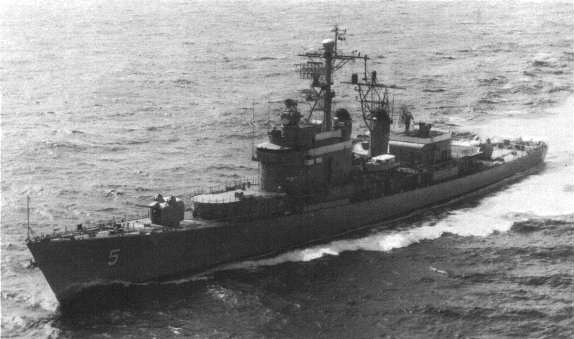 The U.S. Navy destroyer leader ("frigate") USS Wilkinson (DL-5) underway in the late 1960s.